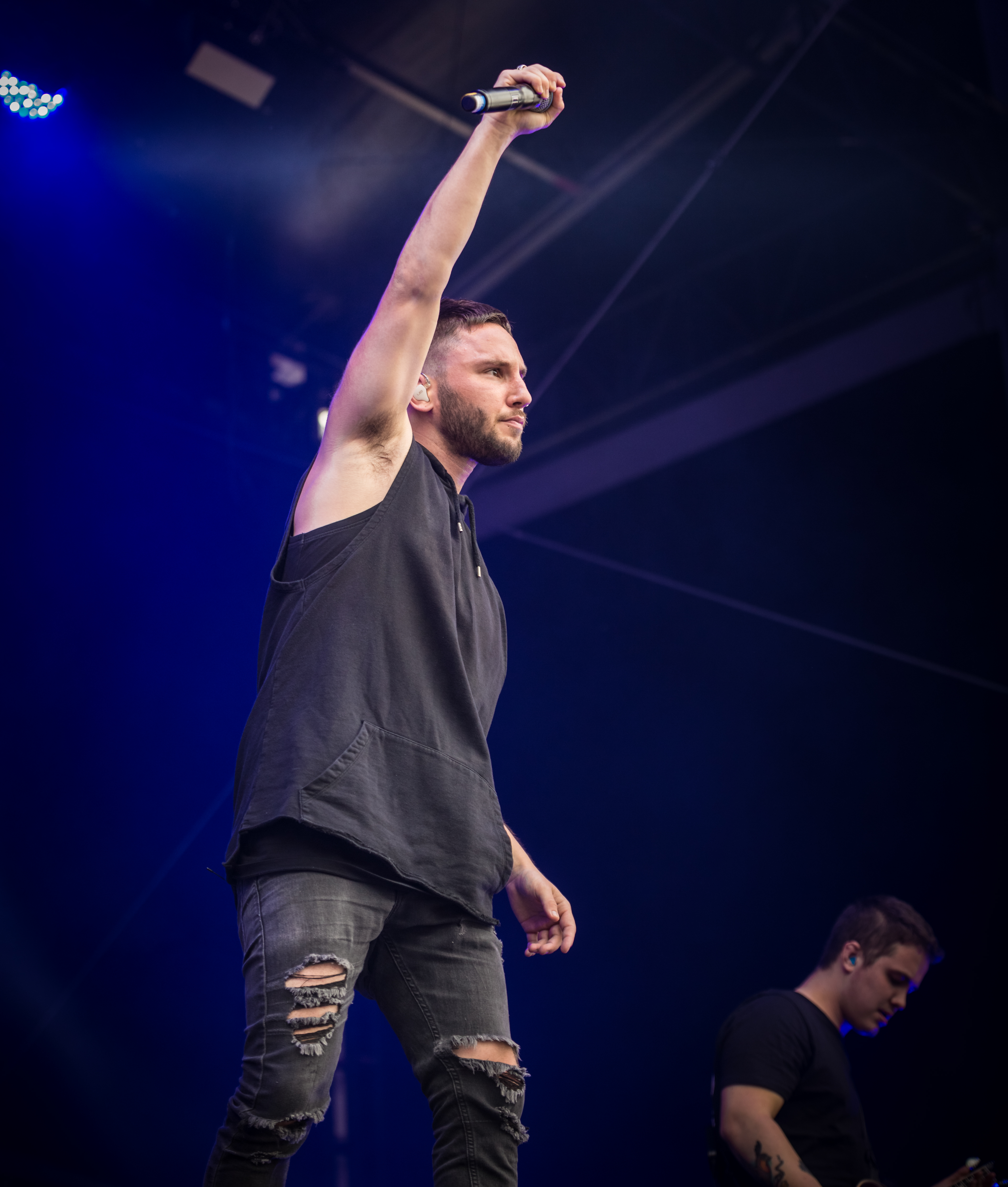 Shvpes - Rock am Ring 2017